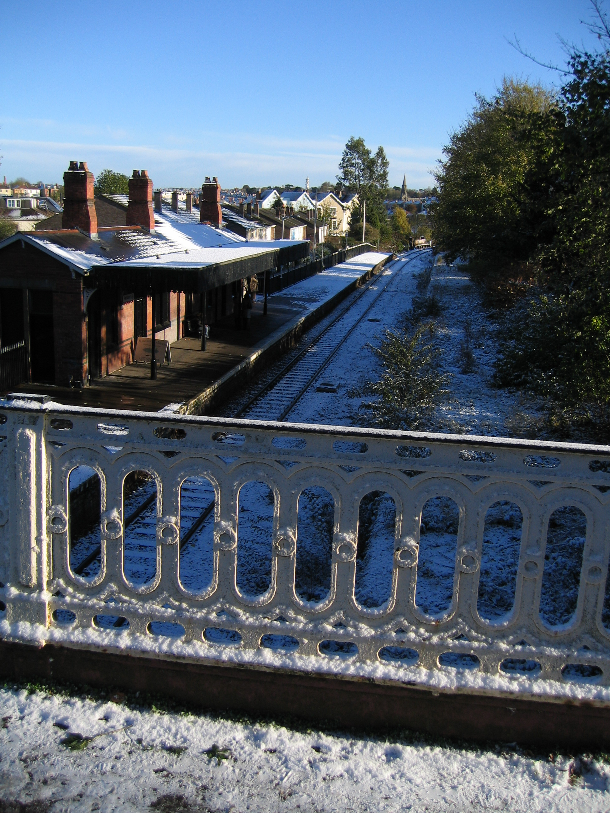 Redland railway station in Bristol on a snowy day. Viewed from the footbridge over the line. The snow picks out the disused second platform.